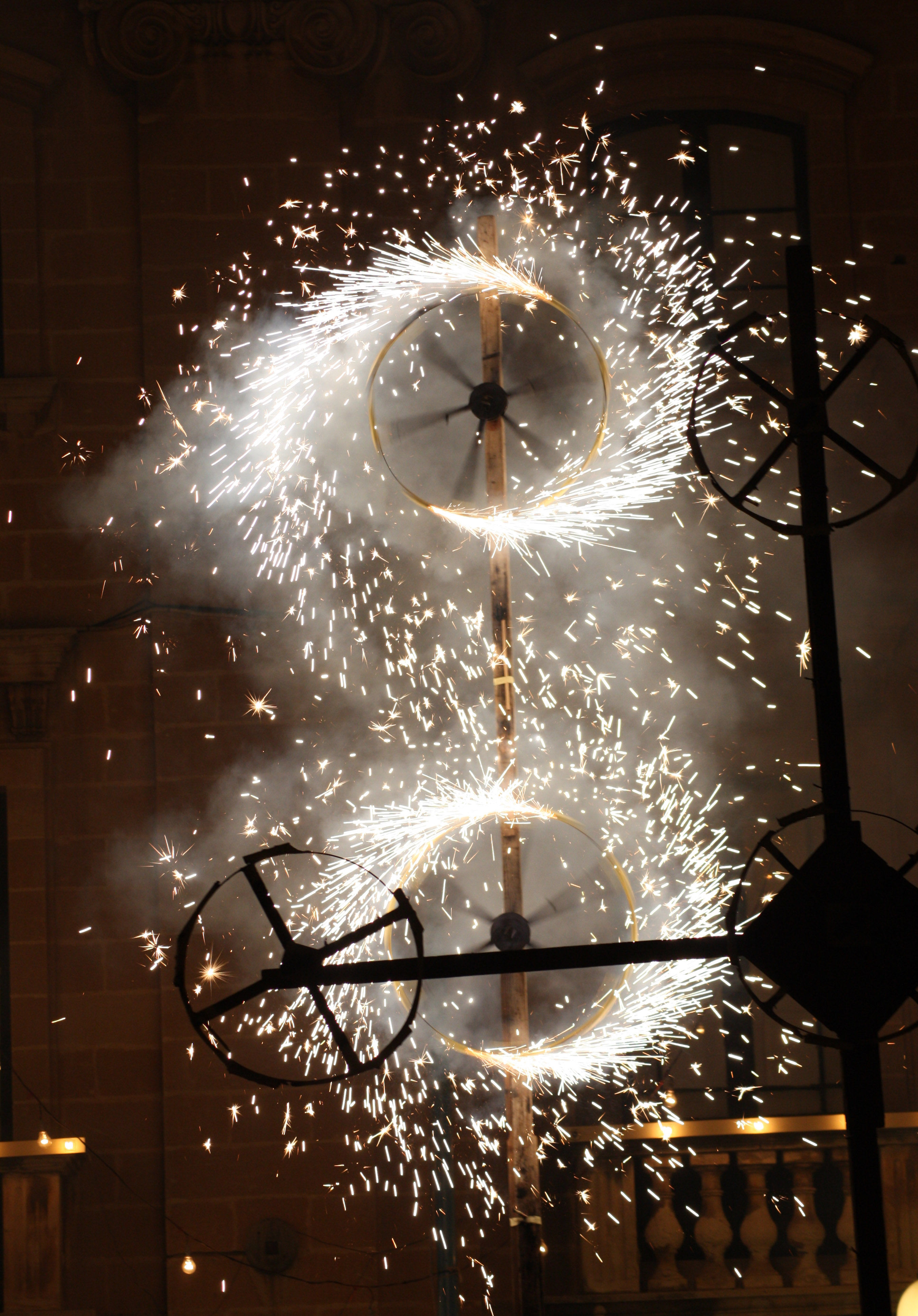 One of the ground fireworks commissioned by the Zabbar Parish Church.